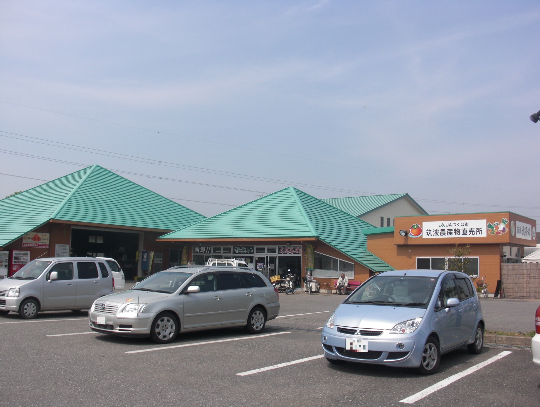 This is a farm stand in Tsukuba, Ibaraki, Japan.